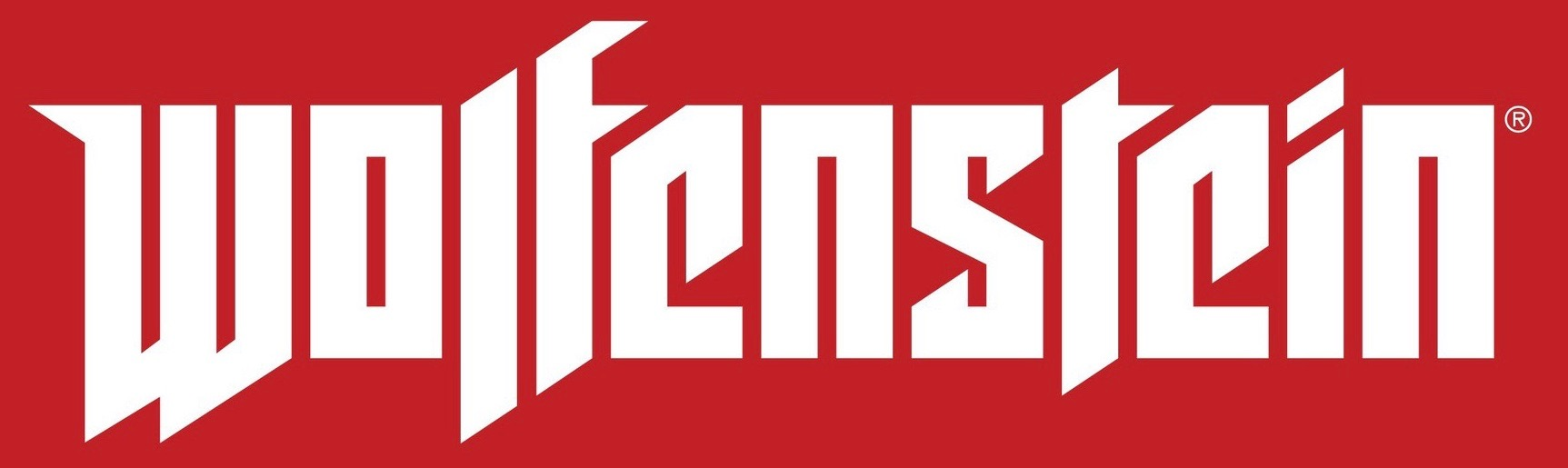 Logo of the Wolfenstein series (as revised for 2014's The New Order)